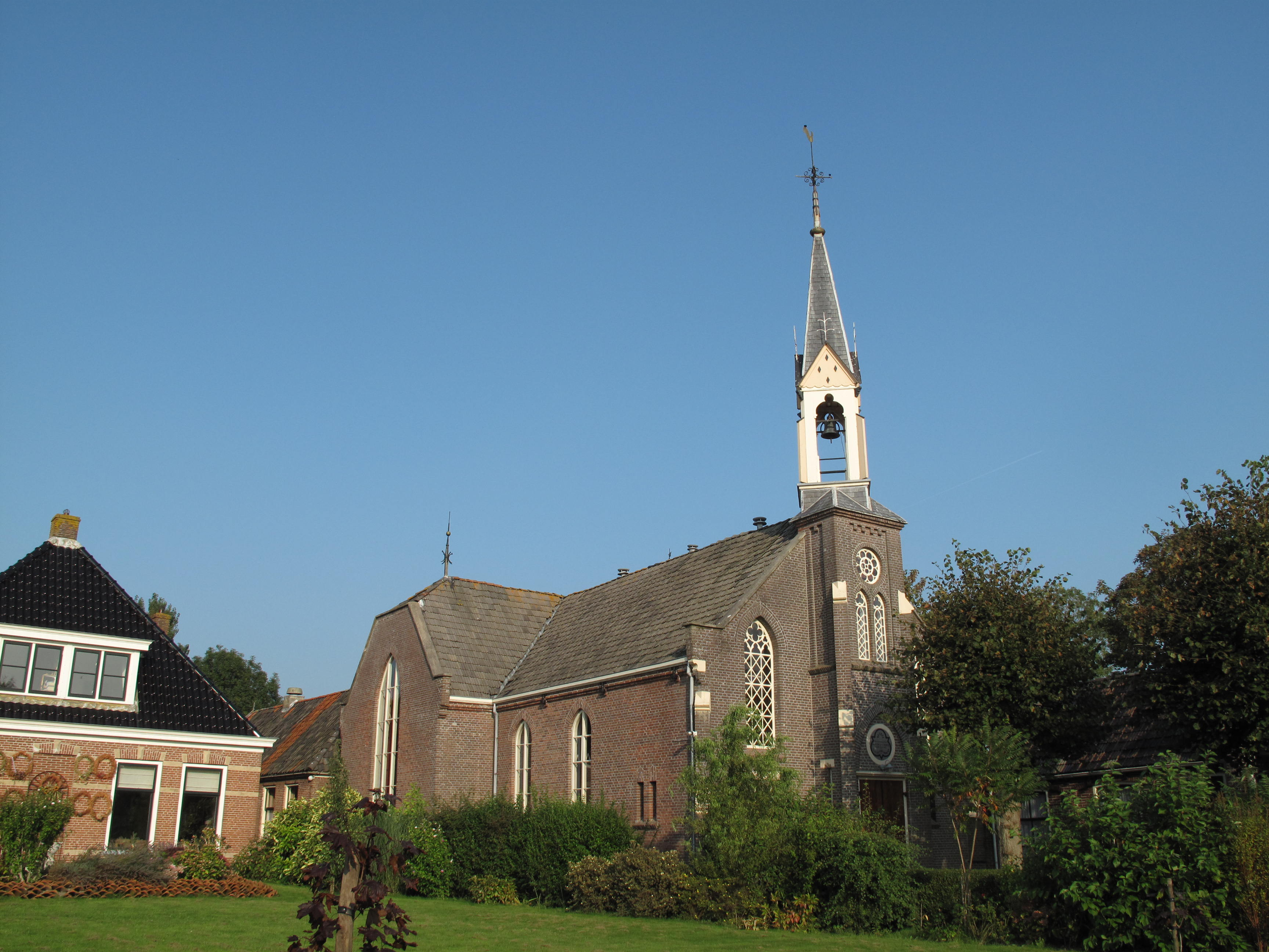 Hijum, church